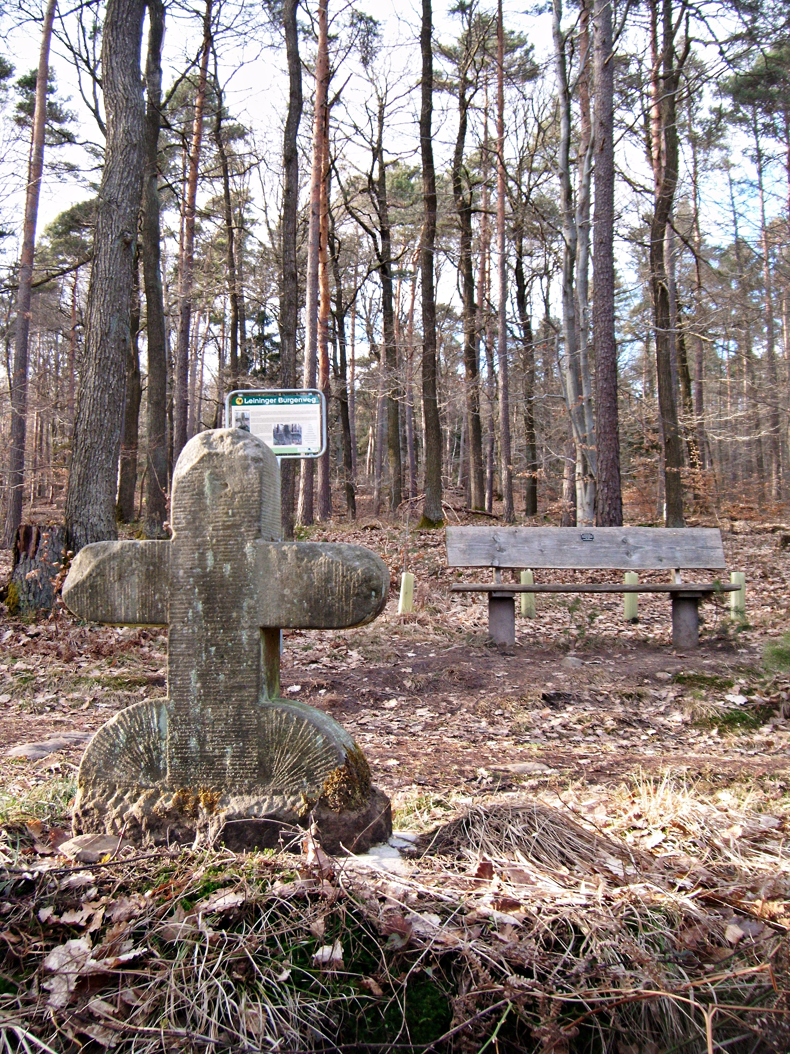 Battenberg, Jägerkreuz, Rückseite